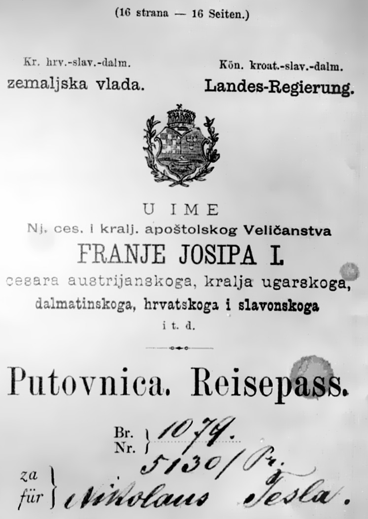 Passport of Nikola Tesla, page 1, 1883.